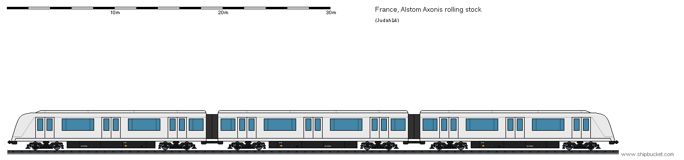 Line drawing of Alstom Metropolis train set in 3-car configuration as included in the Axonis turnkey light metro system, scale 22.093 pixels to 1 meter